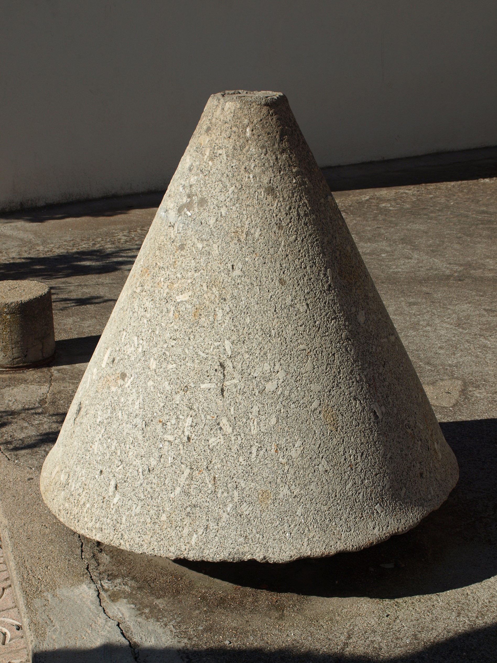 Olive oil millstone used as decoration on the streets of Losar de la Vera (Cáceres, Spain).